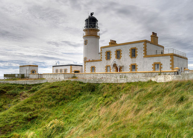 Black Head, Killantringan Lighthouse